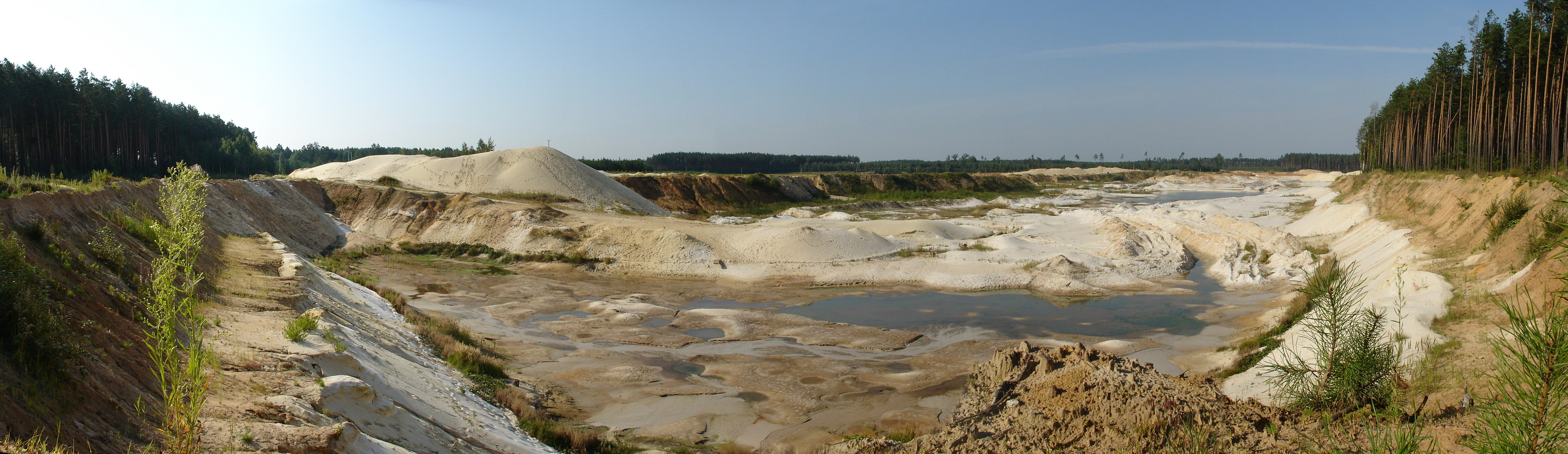 Sand quarry in Oleshnya, Ripky Raion, Ukraine